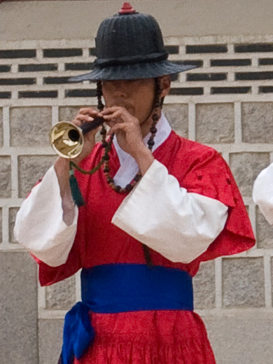 Taeyeongso, a Korean traditional musical instruments. Cropped the relevant item from the original.